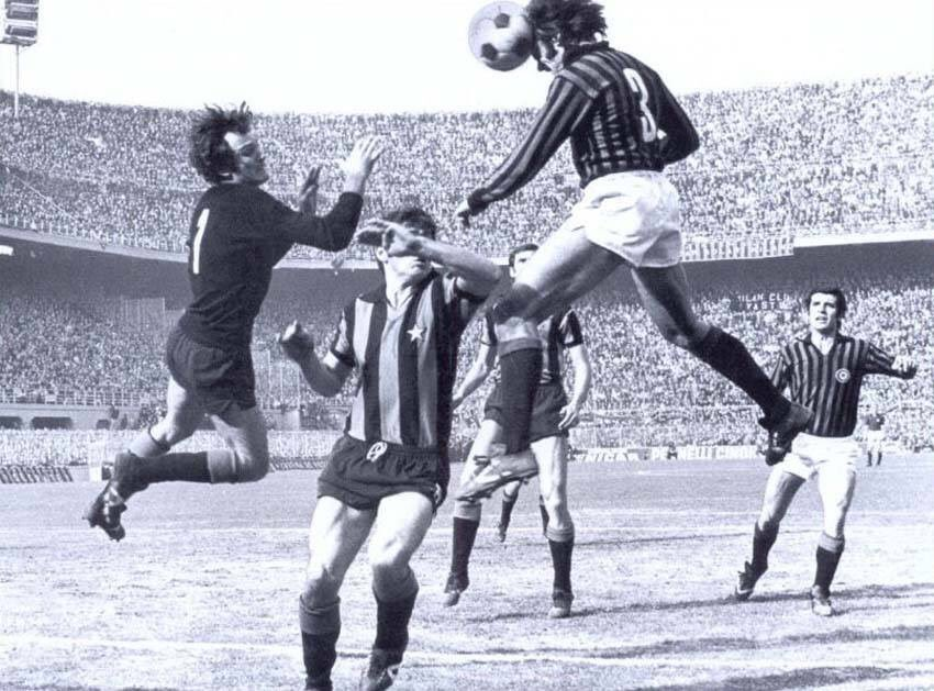 Milan, San Siro, March 18, 1973. Inter Milan — A.C. Milan 0-2, Italy Championship 1972–73 Serie A, 22nd round. A.C. Milan's defender Giuseppe Sabadini (no. 3) beats Inter Milan's goalkeeper Lido Vieri (no. 1) and scores the first goal of the Milan derby.